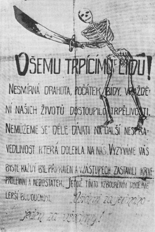 Leaflet against poverty, hunger and war (1918) To All Suffering People Immense living cost, begining of the poverty, murdering of our lives have touched the limits of patience. We can see no longer another injustice which has affected us. We call you everyone to be prepared and to stop in hosts the bloodshed and shortage. Only through this revolt we shall reach better future. All for one goal, one for all.